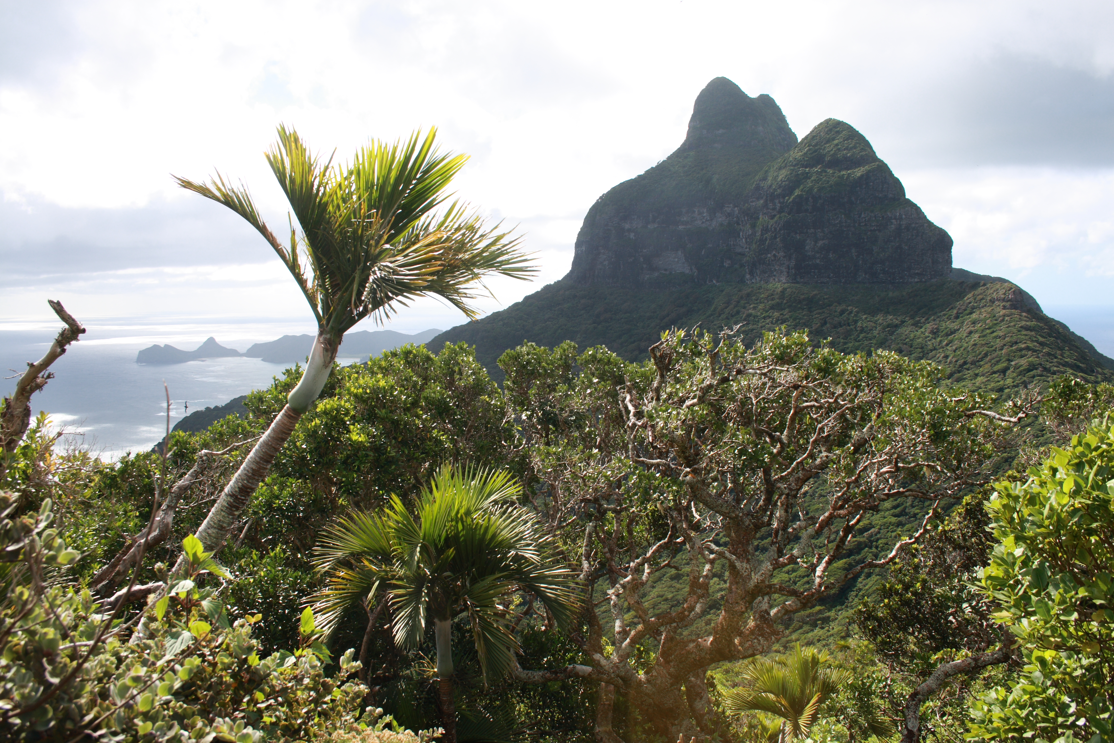 On the walk up Mount Gower on Lord Howe Island.